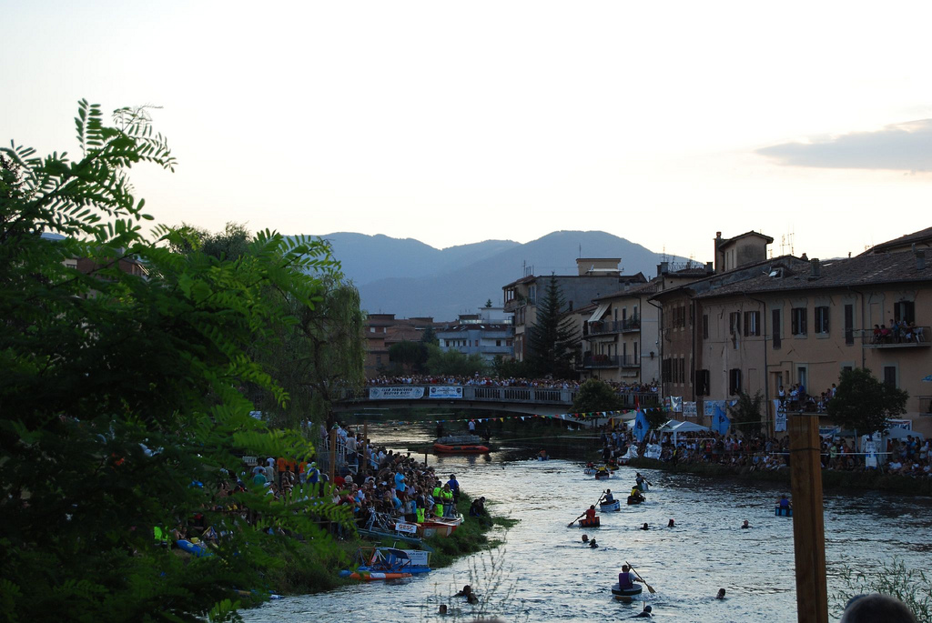 The traditional Palio della Tinozza competition in Rieti, Italy. 2008 edition.